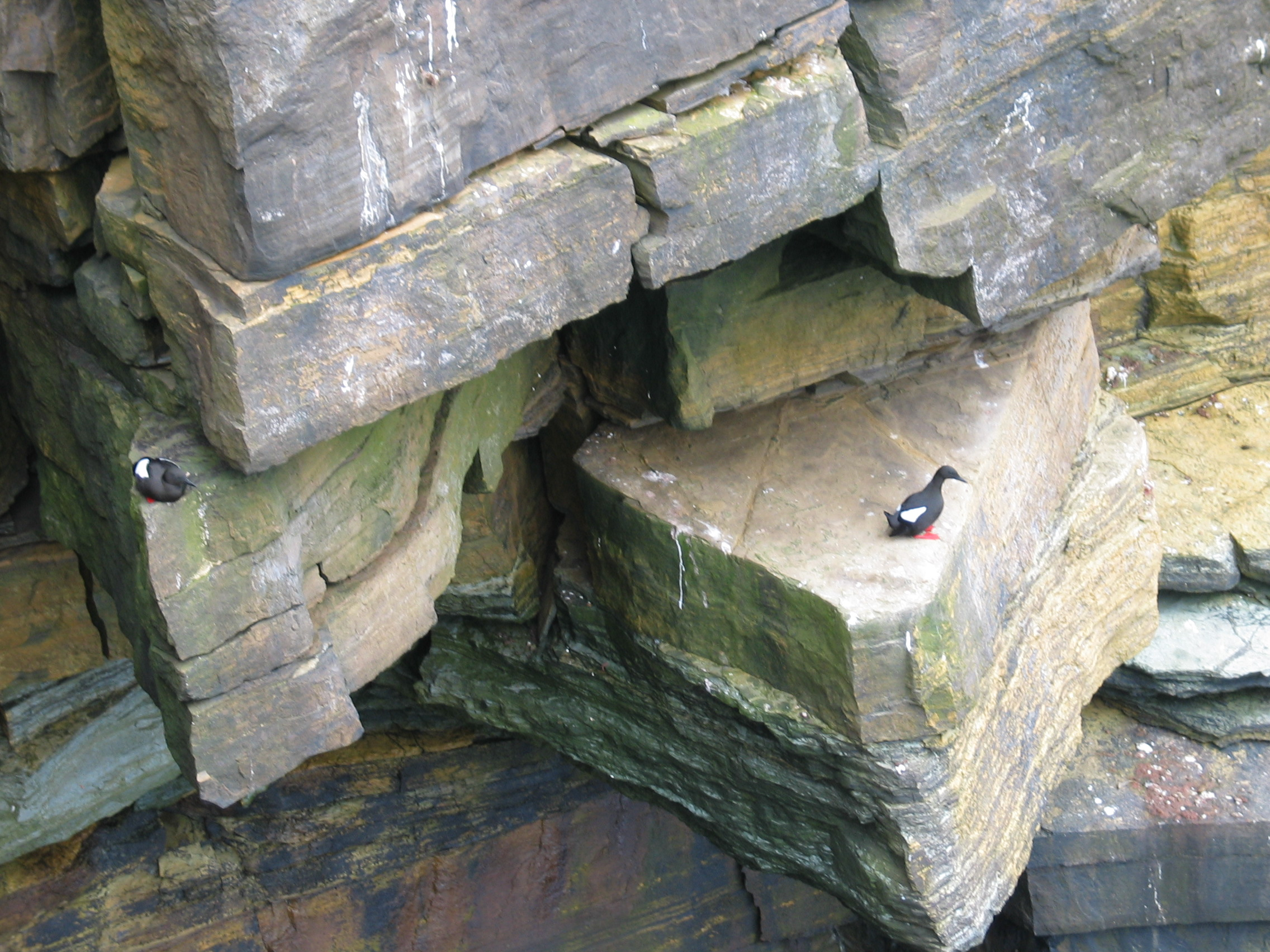 Black guillemots on Yesnaby Cliffs, Orkney, Scotland